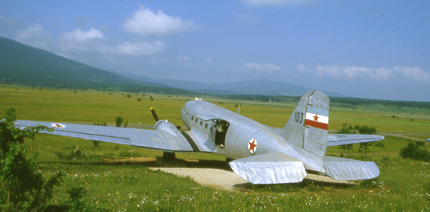 Plane in memory of the WWII partisans